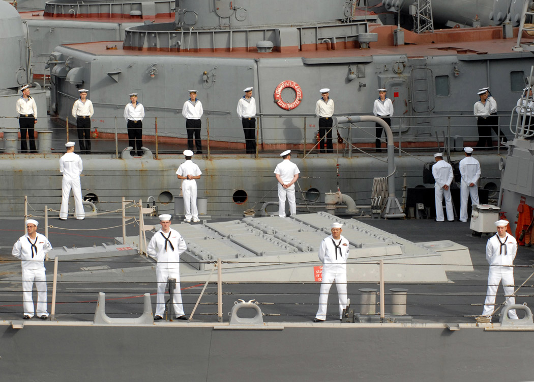 VLADIVOSTOK, Russia (July 1, 2007) – Sailors aboard guided-missile destroyer USS Curtis Wilbur (DDG 54) man the rails upon arriving in Vladivostok next to a Russian surface combatant ship. Curtis Wilbur, homeported in Yokosuka, Japan, and submarine tender USS Frank Cable (AS 40), homeported in Apra Harbor, Guam, are in port to support the longstanding U.S. commitment for peace and security in this vital region of the world. U.S. Navy photo by Mass Communication Specialist 2nd Class Stefanie Broughton (RELEASED)